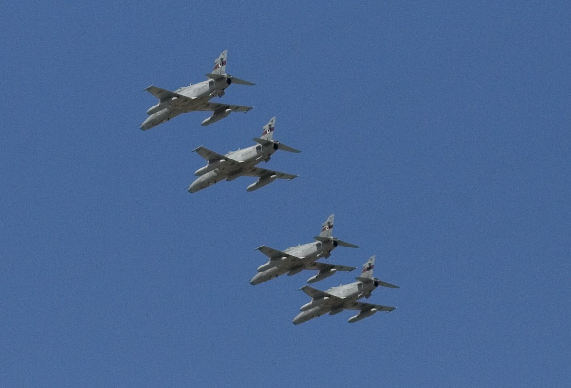 Four Hawk 127 aircraft flying in basic formation over RAAF Pearce, WA